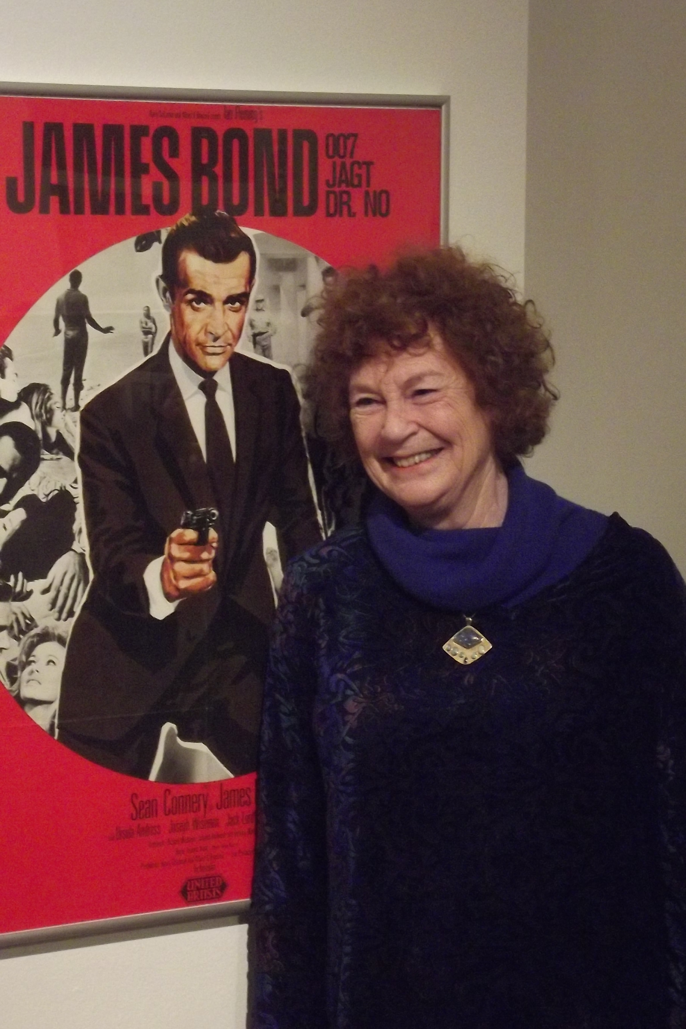 Actress Nikki van der Zyl at the opening of the exhibition "Night Flight to Berlin" in November 2013